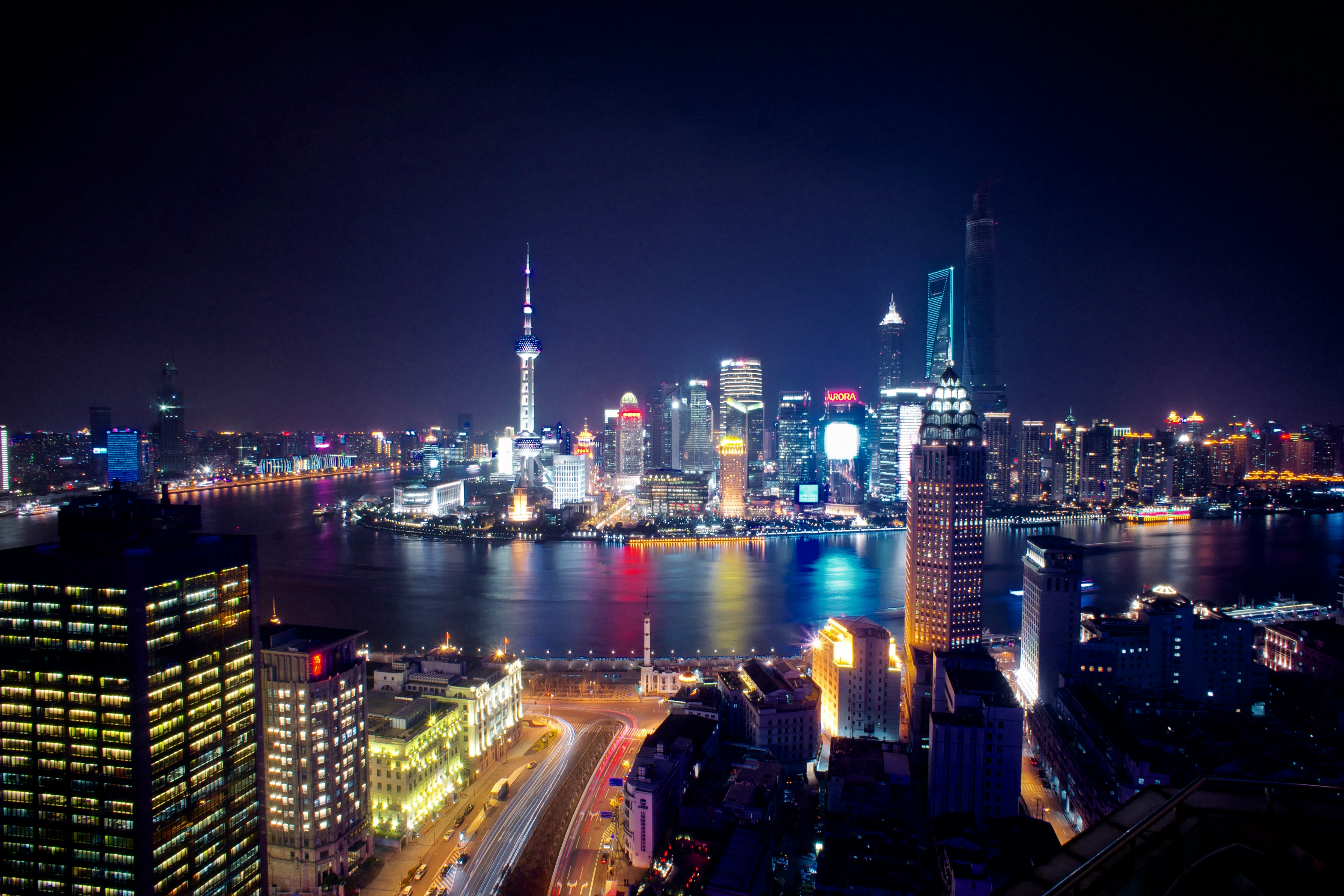 Pudong, Shangai, China.